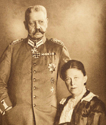 FM Hindenburg and his wife